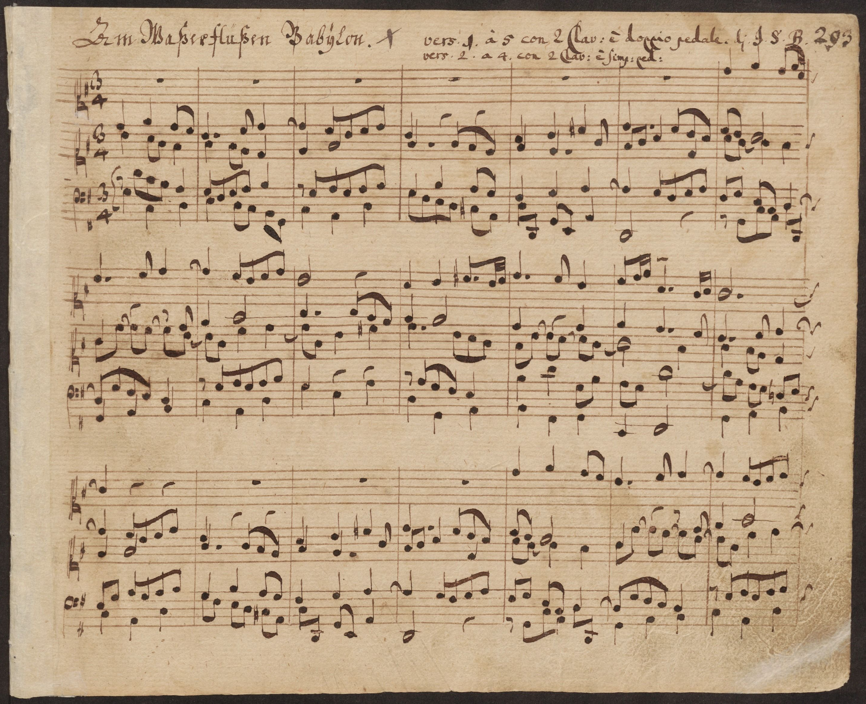 First page of Walther's P 802 manuscript of Johann Sebastian Bach's chorale prelude BWV 653b with two manuals and double pedal. This is a variant of BWV 653 from the Great Eighteen Chorale Preludes.